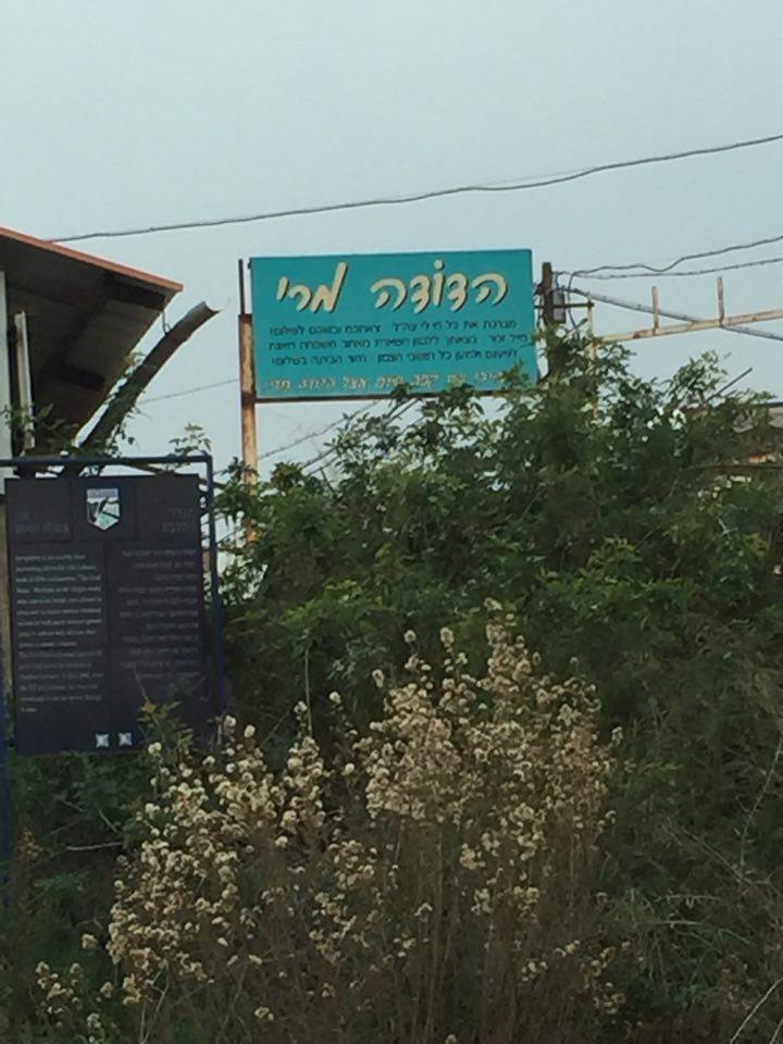 רחבת הכניסה לשער פטמה תמונה מינואר 2016, וכמובן השלט של הדודה מרי ז״ל עדיין מתנוסס שם. (התמונה צולמה על ידי אופיר)